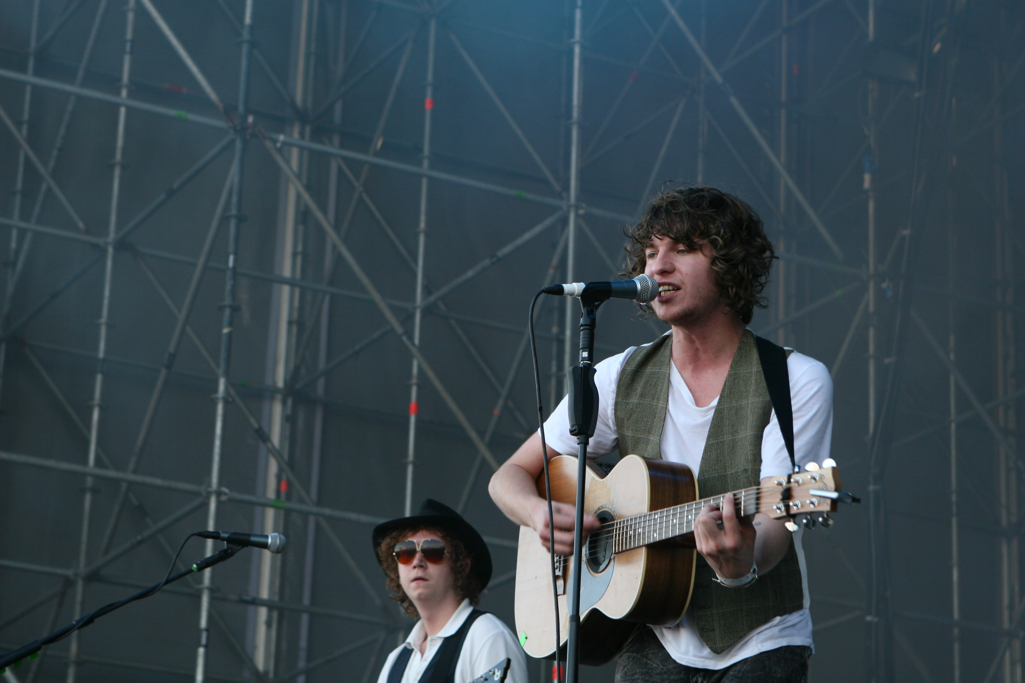 The Kooks in Barcelona 2008